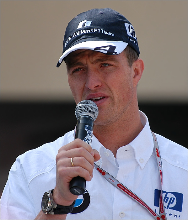 Ralf Schumacher at Nürburgring (GP of Europe)